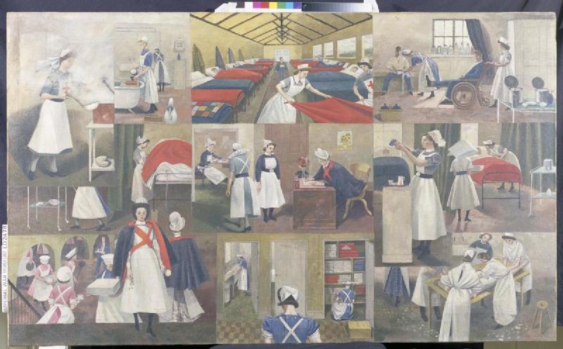 Composite image of daily life for the nursing staff in a hospital.